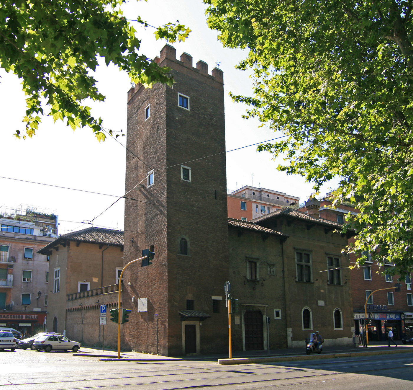 Torre degli Anguillara, Piazza Guiseppe G. Belli, Rome. 13th C.